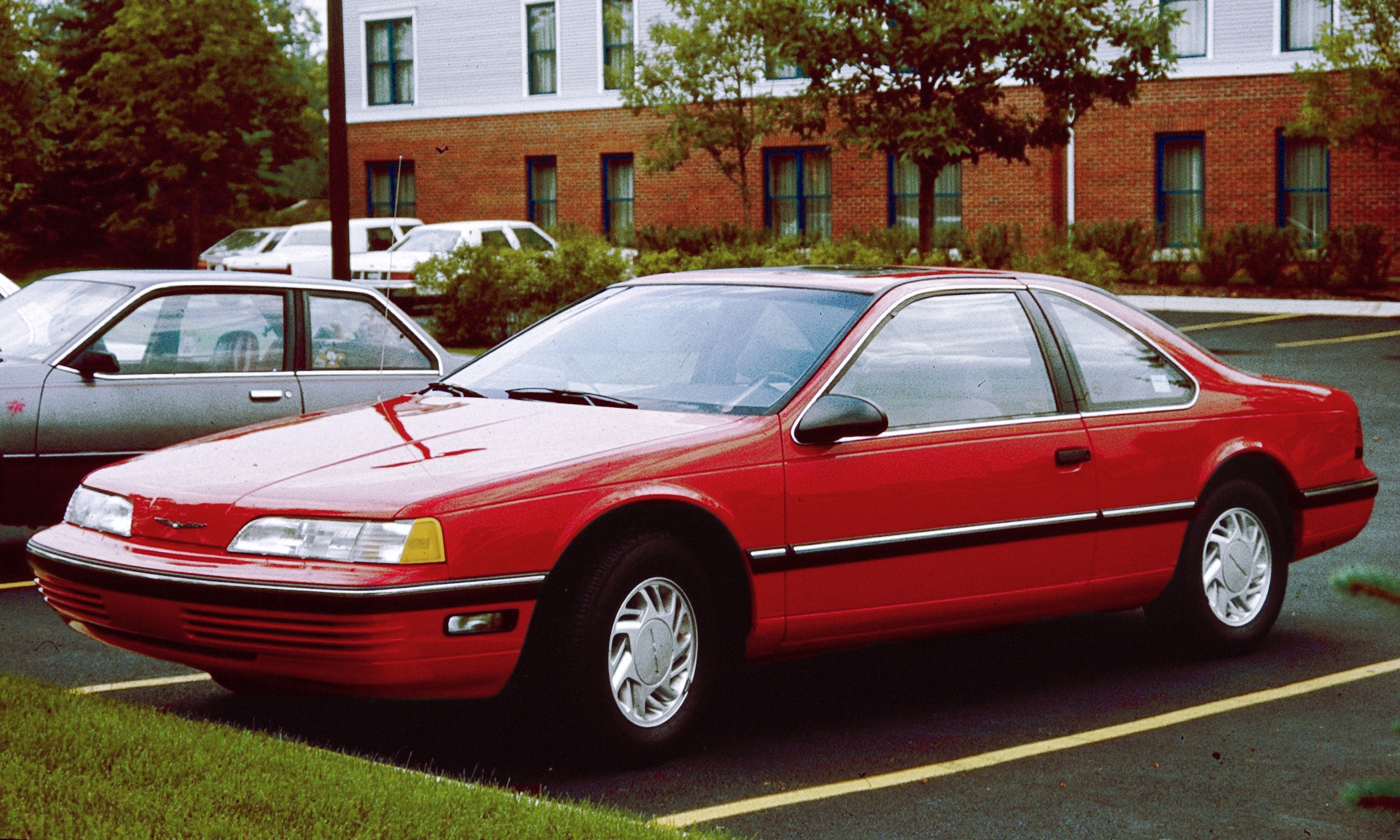 Ford Thunderbird Illinois 1990 - 1997 outside Hawthorn Suites hotel between Vernon Hills shopping center and the Interstate (I-94)